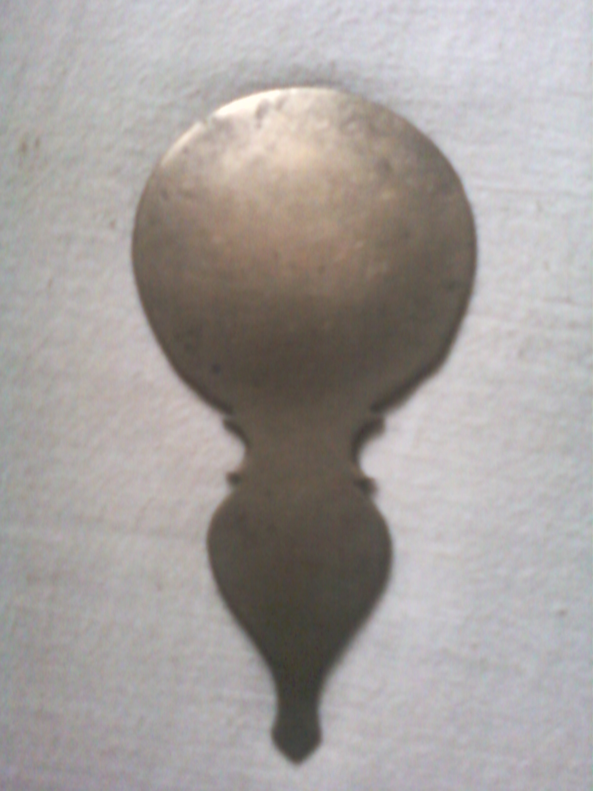 Valkannadi means "Mirror with tail". Commonly made with Bronze.